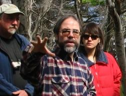 Ricardo Rozzi (center)